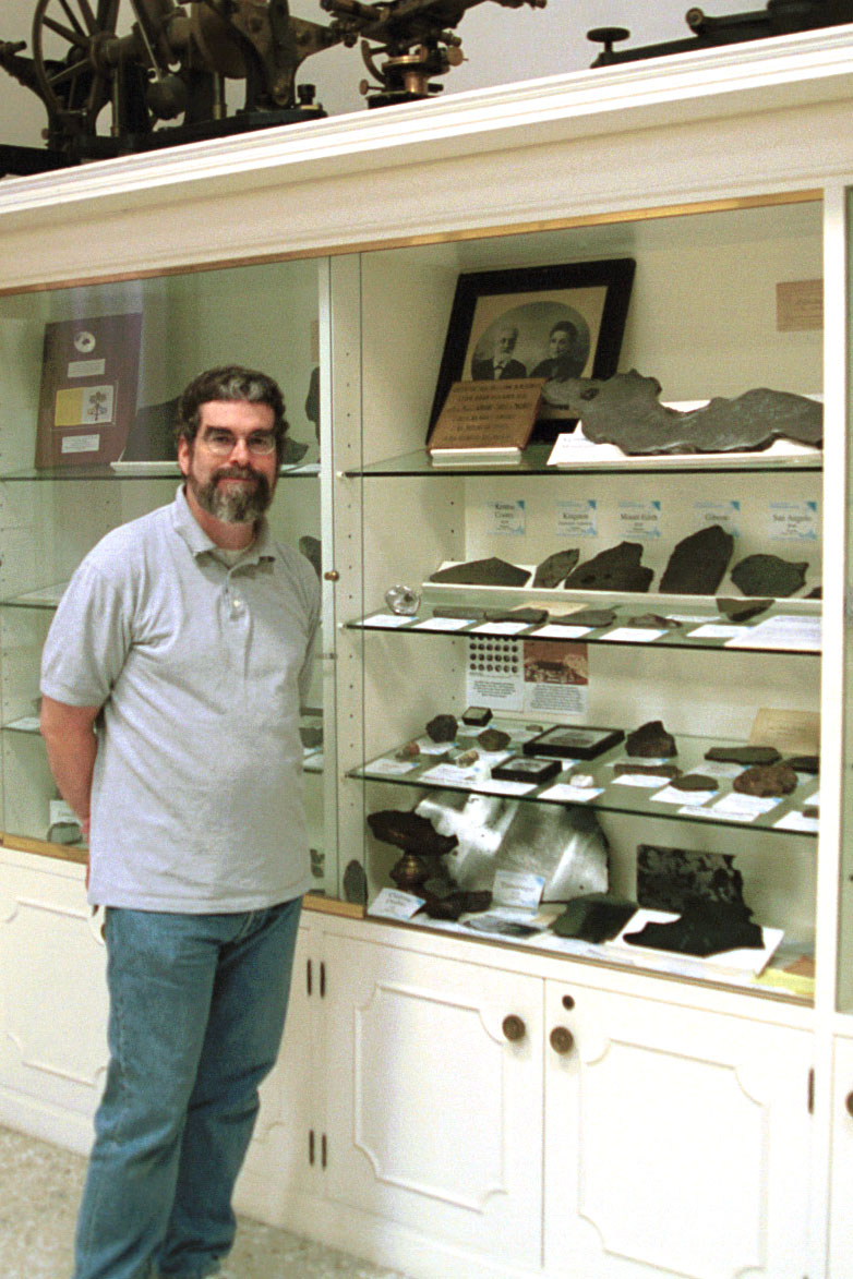 Br. Guy Consolmagno with the Vatican Meteorite collection at Castel Gandolfo